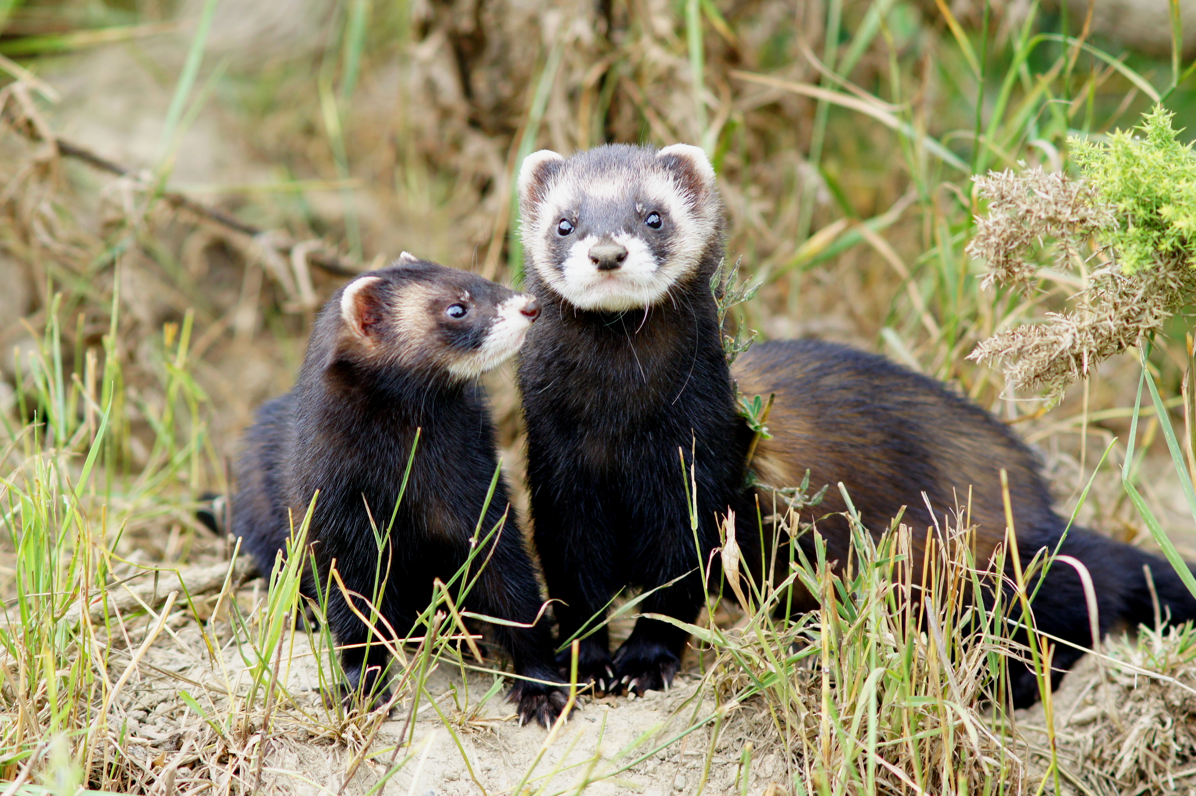 Polecats at the British Wildlife Centre, Newchapel, Surrey